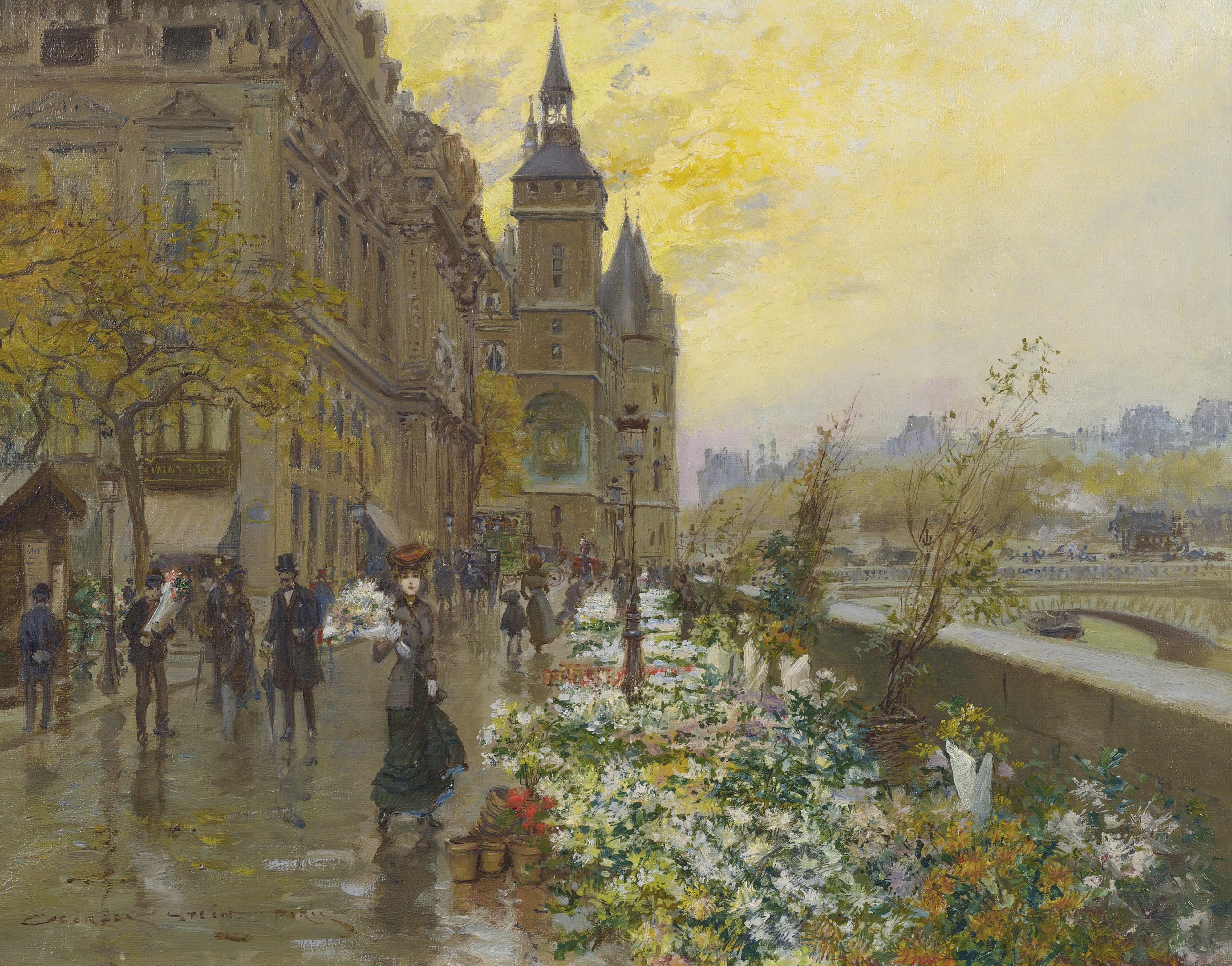 The Flower Market (at the Quai de la Corse in Paris), signed Georges Stein Paris, Oil on canvas, 43.2 x 54.6 cm